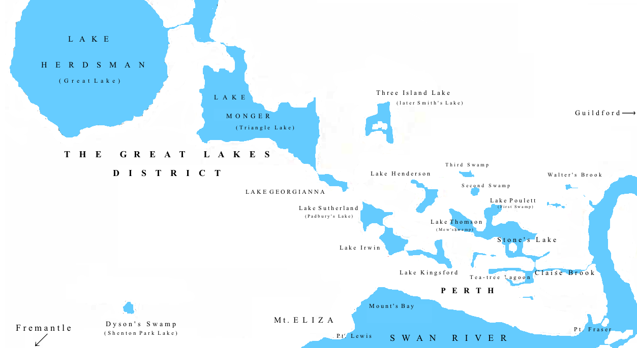 A map of the former Perth Wetlands or 'Great Lakes District' constructed from a map by M. Pitt (1979), which itself was reconstructed from a map by John Septimus Roe (1834).